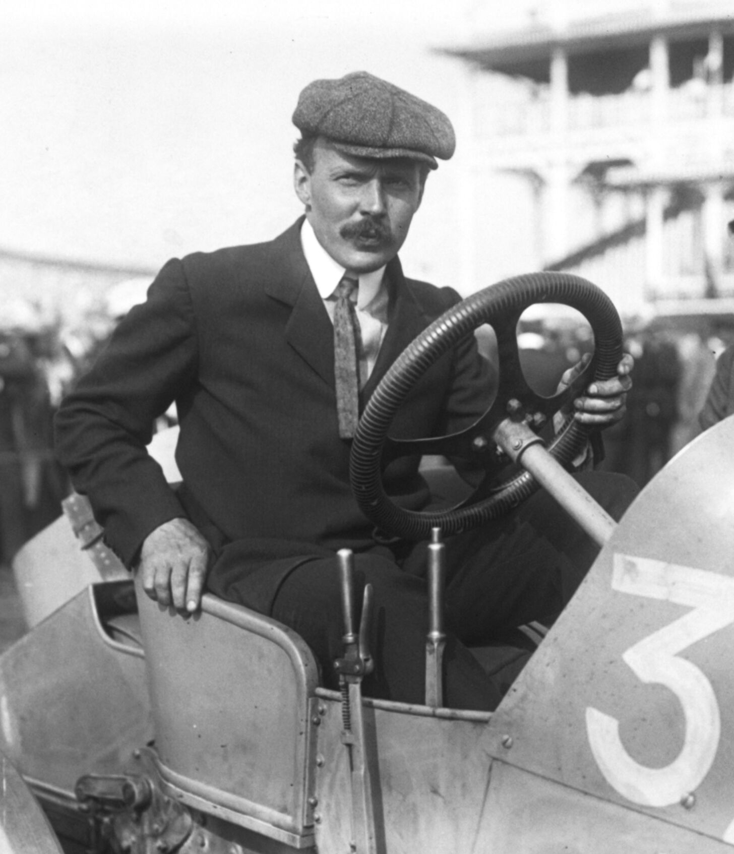 Maurice Farman (1877-1964) driving a car in 1908.